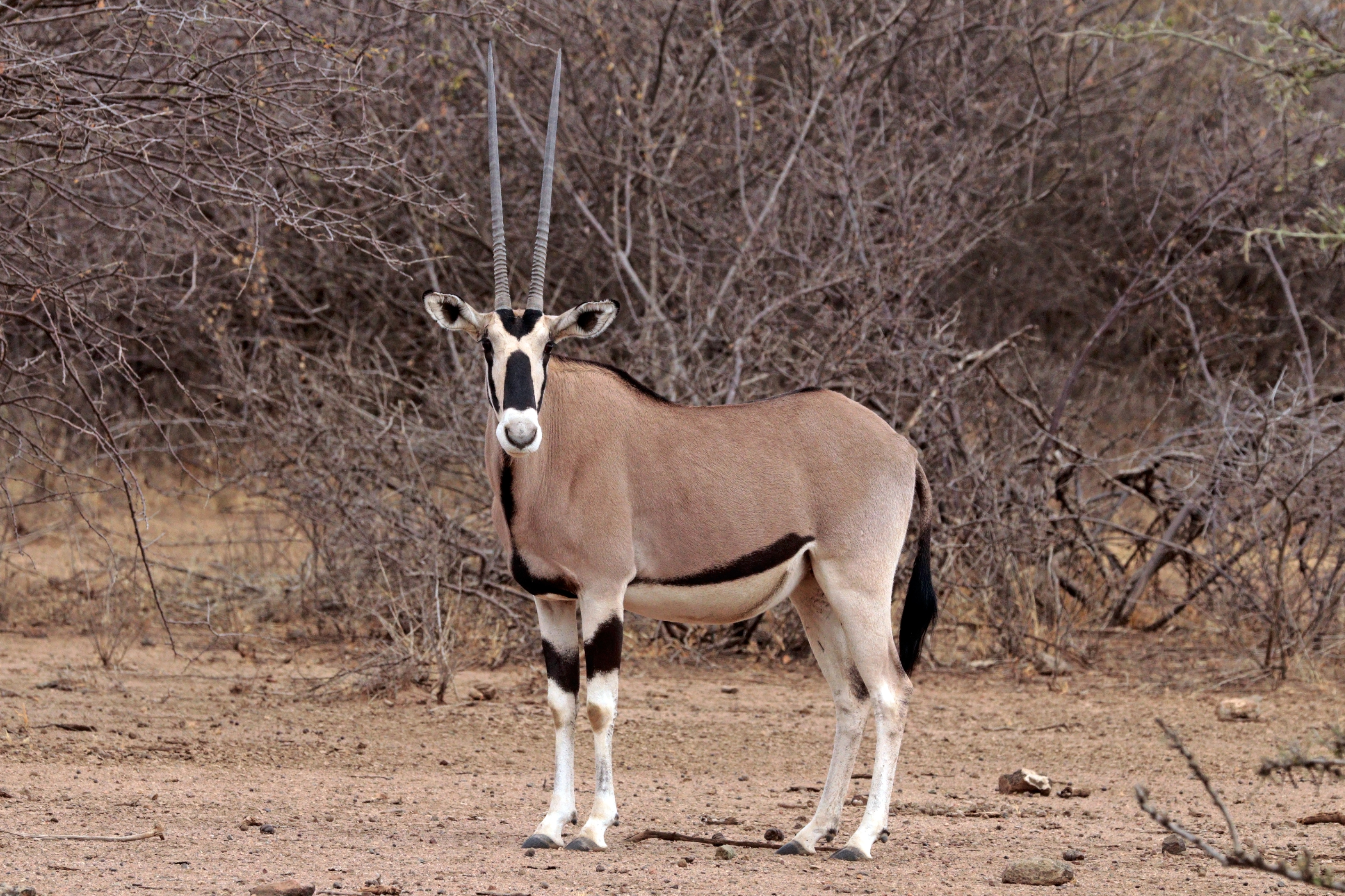 Common beisa oryx (Oryx beisa beisa) female, Awash National Park, Ethiopia